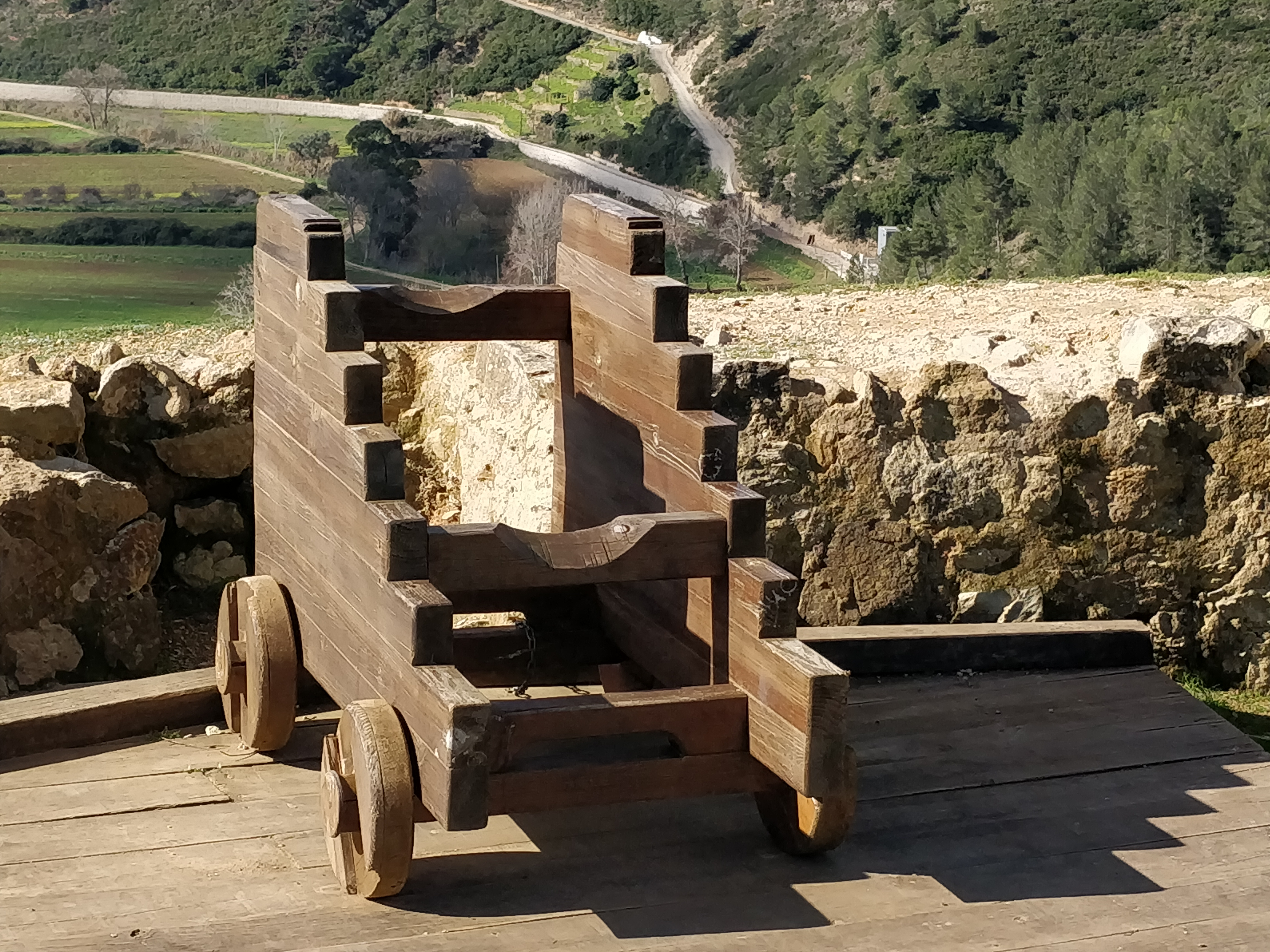 Artillery bastion of the Fort of Zambujal, Mafra, Portugal